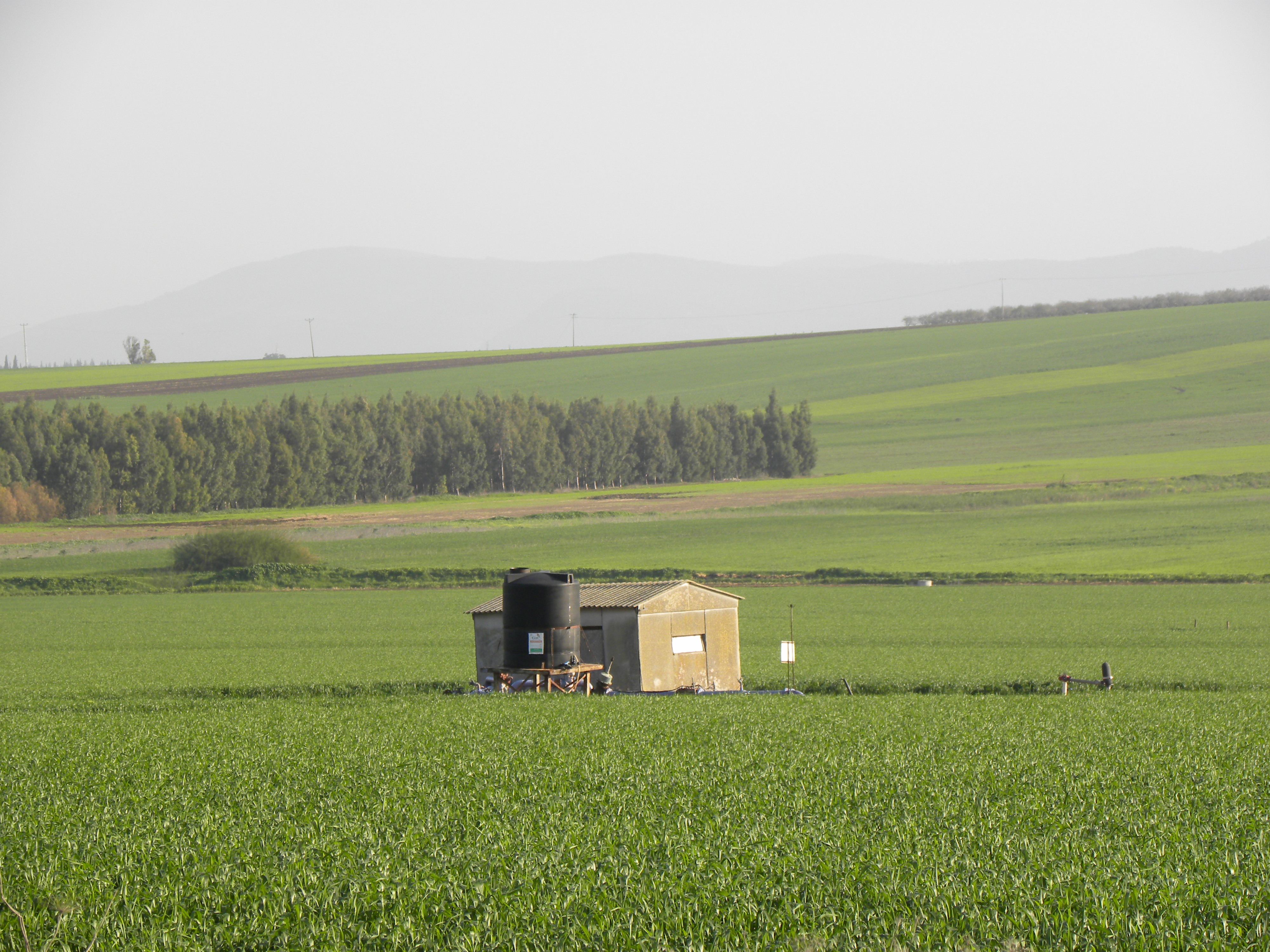 Israel Valley